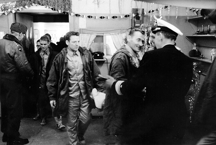 The crew of USS Pueblo as they arrive at the U.N. Advance Camp, Korean Demilitarized Zone, on 23 December 1968, following their release by the North Korean government. Image includes: General Charles H. Bonesteel III, U.S. Army, Commander-in-Chief, United Nations Command, (left) Rear Admiral Edwin M. Rosenberg, USN, Commander Task Force 76